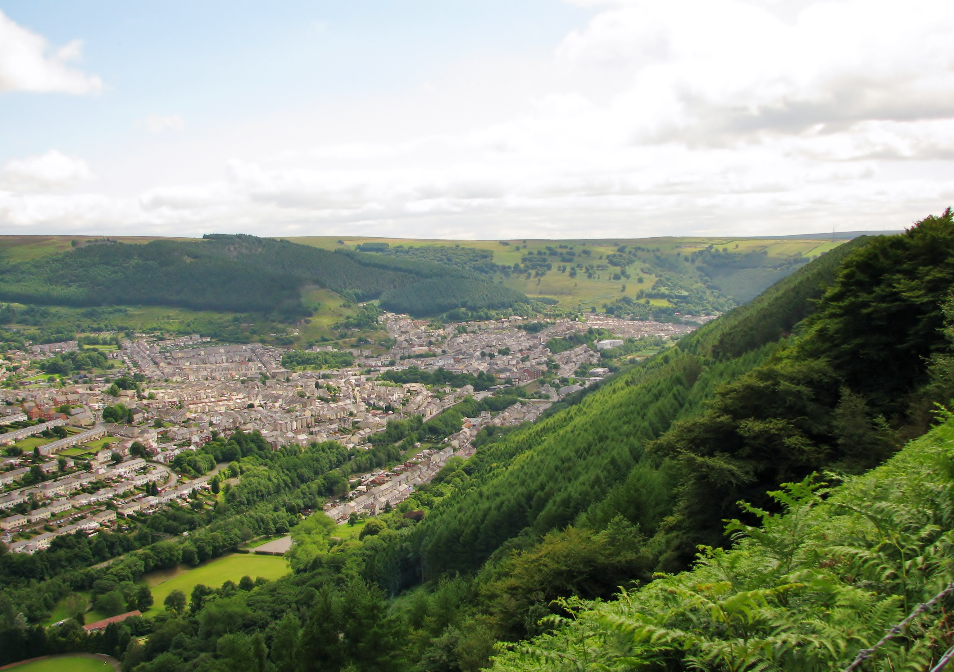 Abertillery from the north west